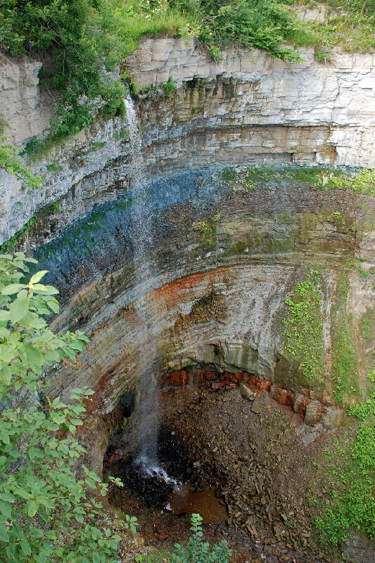 Valaste Waterfall